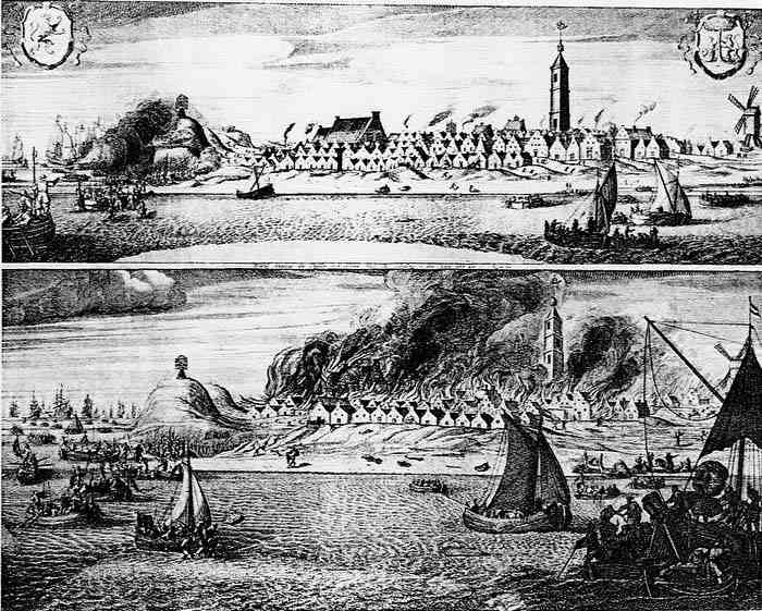 Raid of Admiral Robert Holmes on Vlie 1666